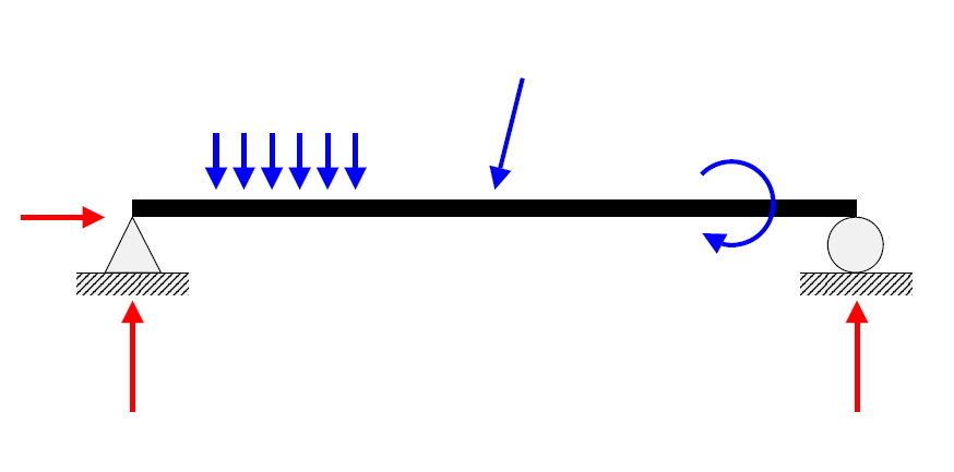 A beam with various loads.